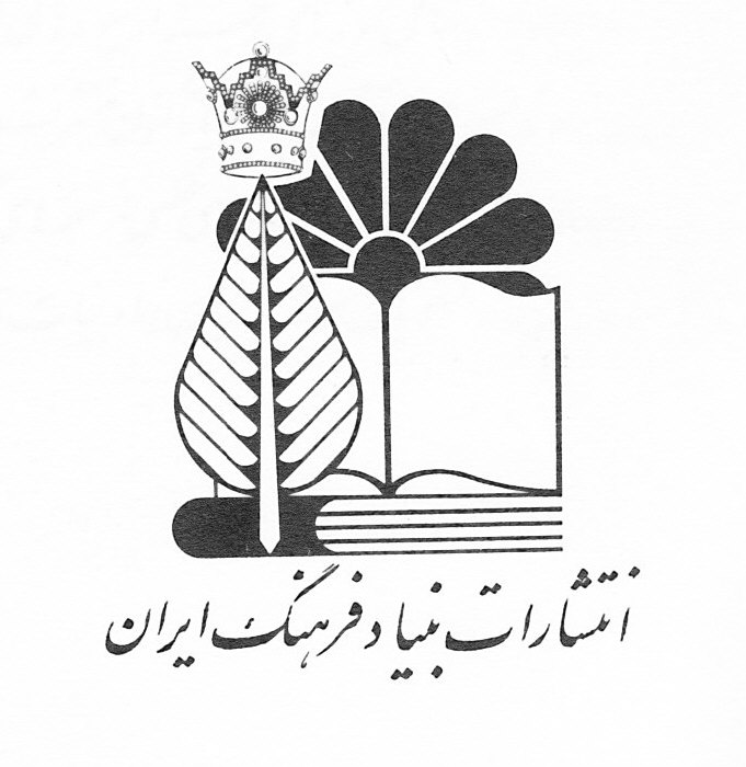 Historical logo of the Bonyad-e Farhang-E Iran. The foundation does no longer exist.